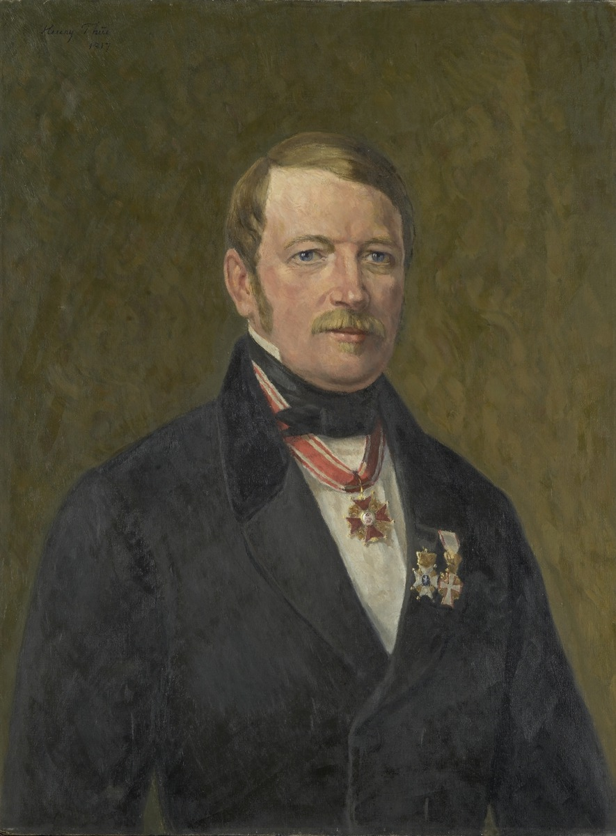 Painting after a photo from ca. 1860